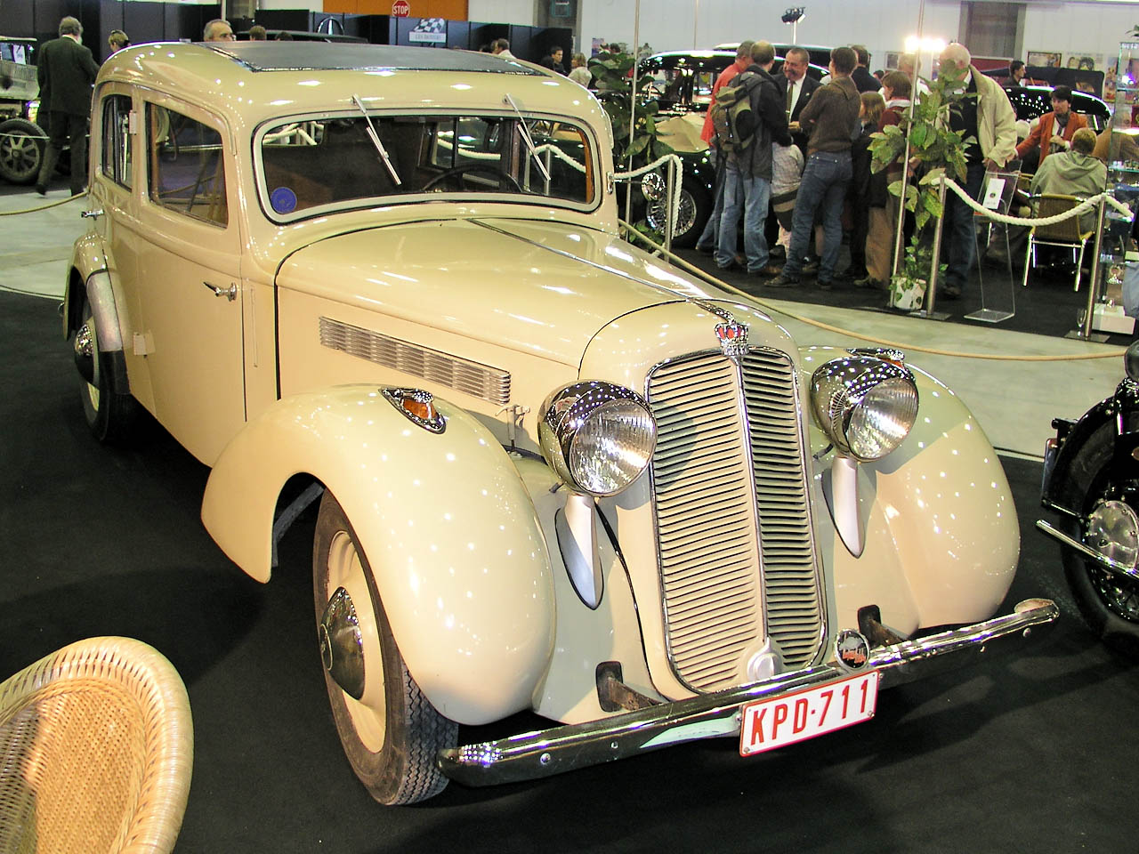 front-wheel drive car with the engine and transmission of the German Adler Trumpf, made in Belgium by Minerva-Imperia SA; right front-side view